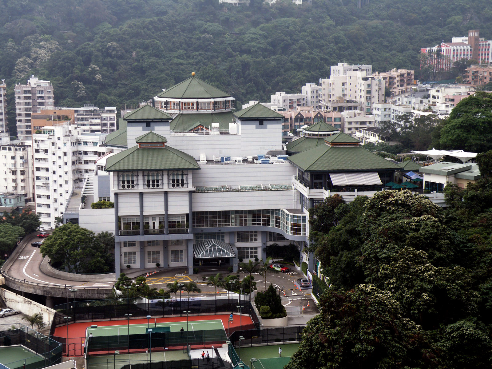 Happy Valley Clubhouse, Hong Kong Jockey Club